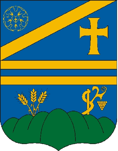 Coat of arms of Mende, Hungary